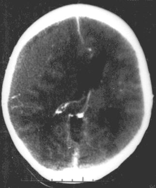 Epidural hematoma as diagnosed in one of my patients. This image cannot be linked to the patient.